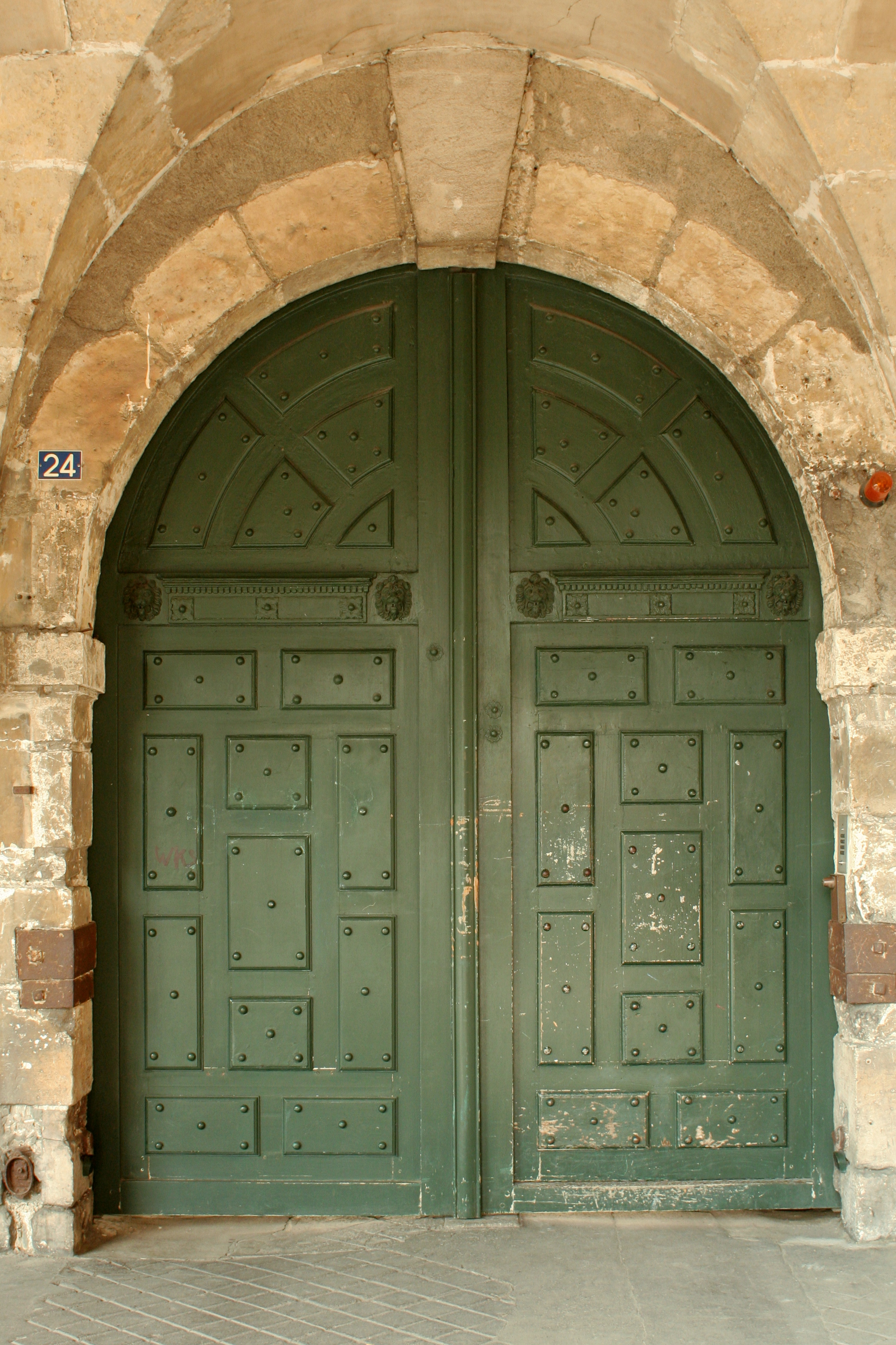 Door of 24 Place des Vosges, Paris.